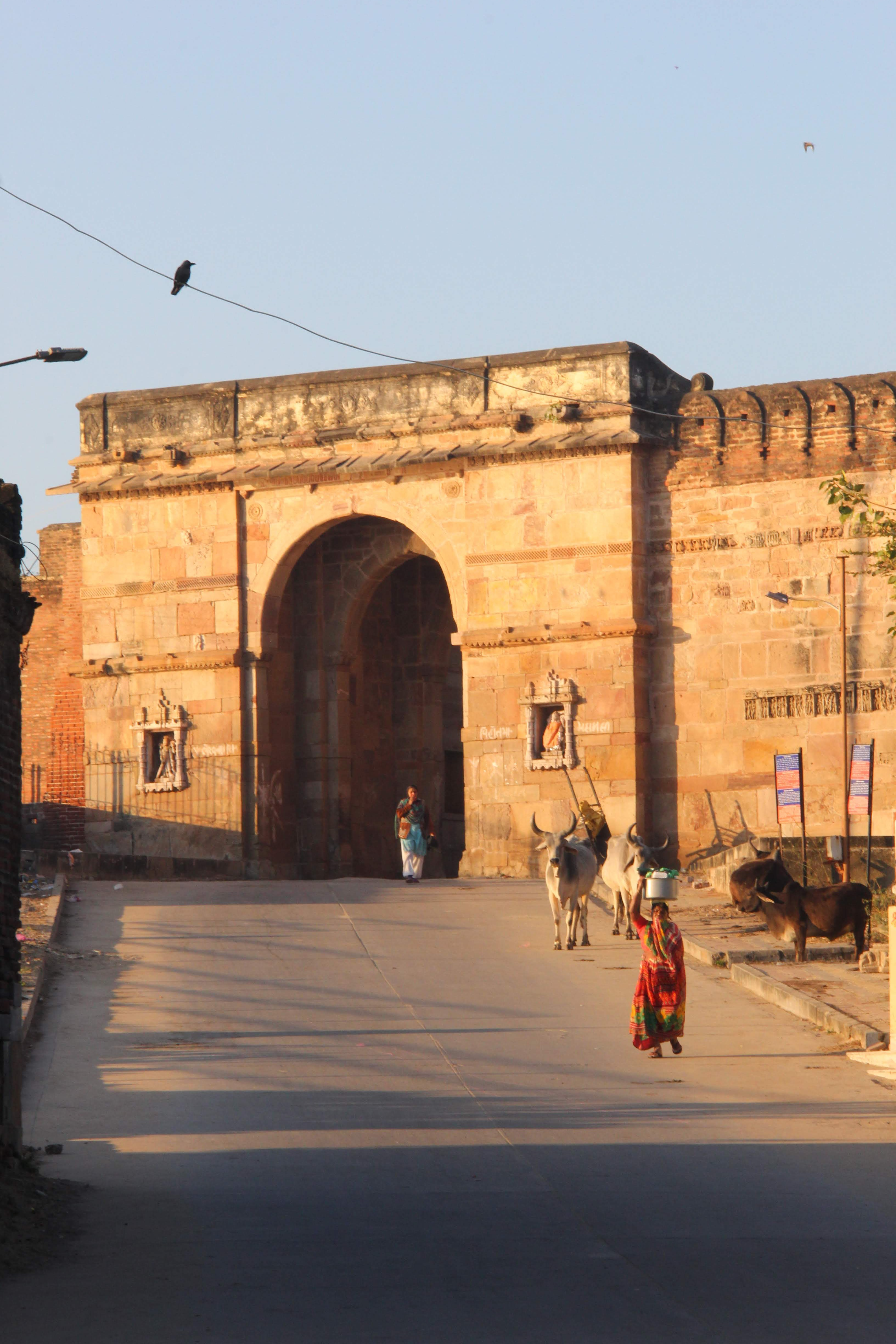 Arjan Bari Gate